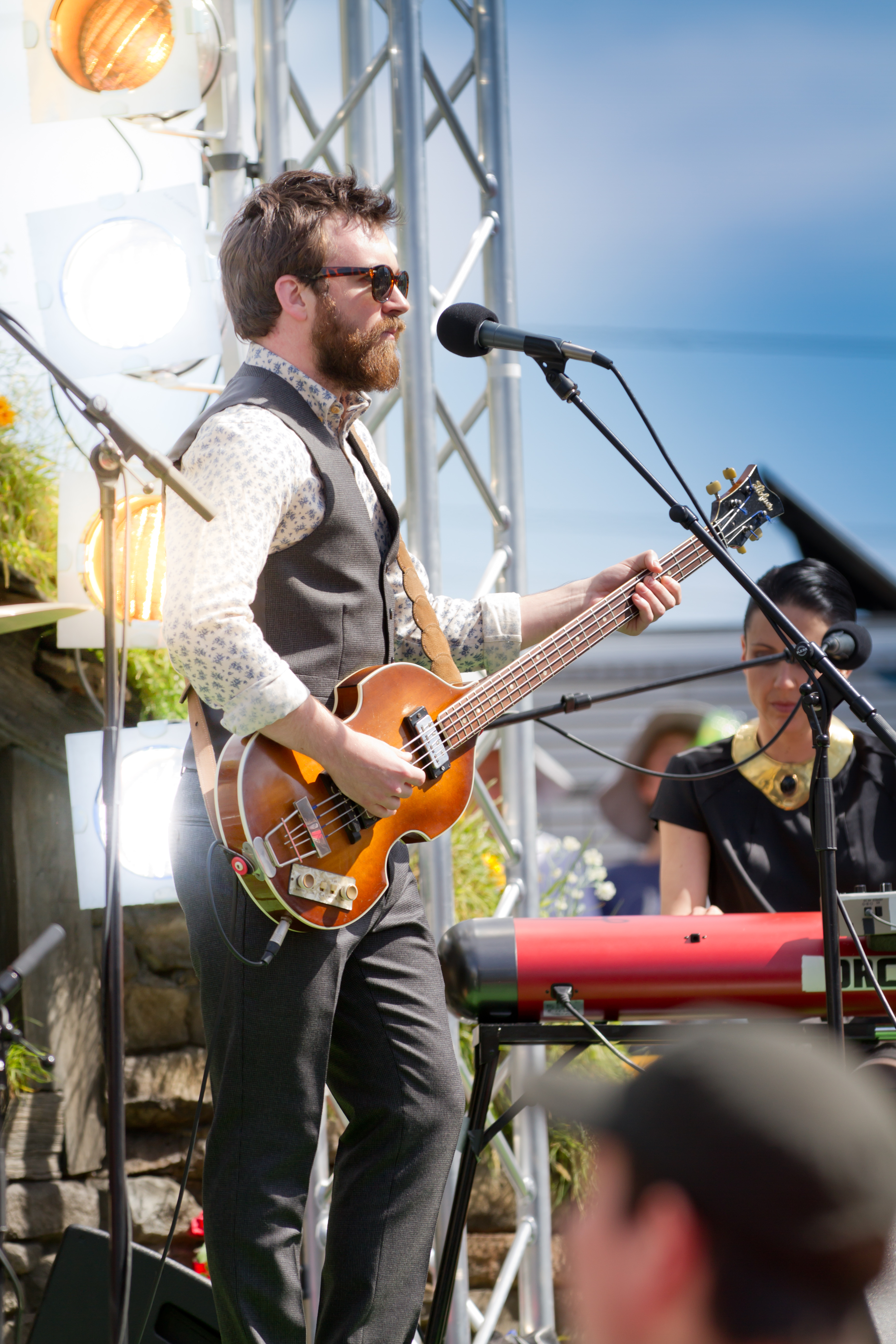 Finn at the world premiere of The Hobbit - An Unexpected Journey, held in Wellington, New Zealand, on the 28th November 2012. More photos available at